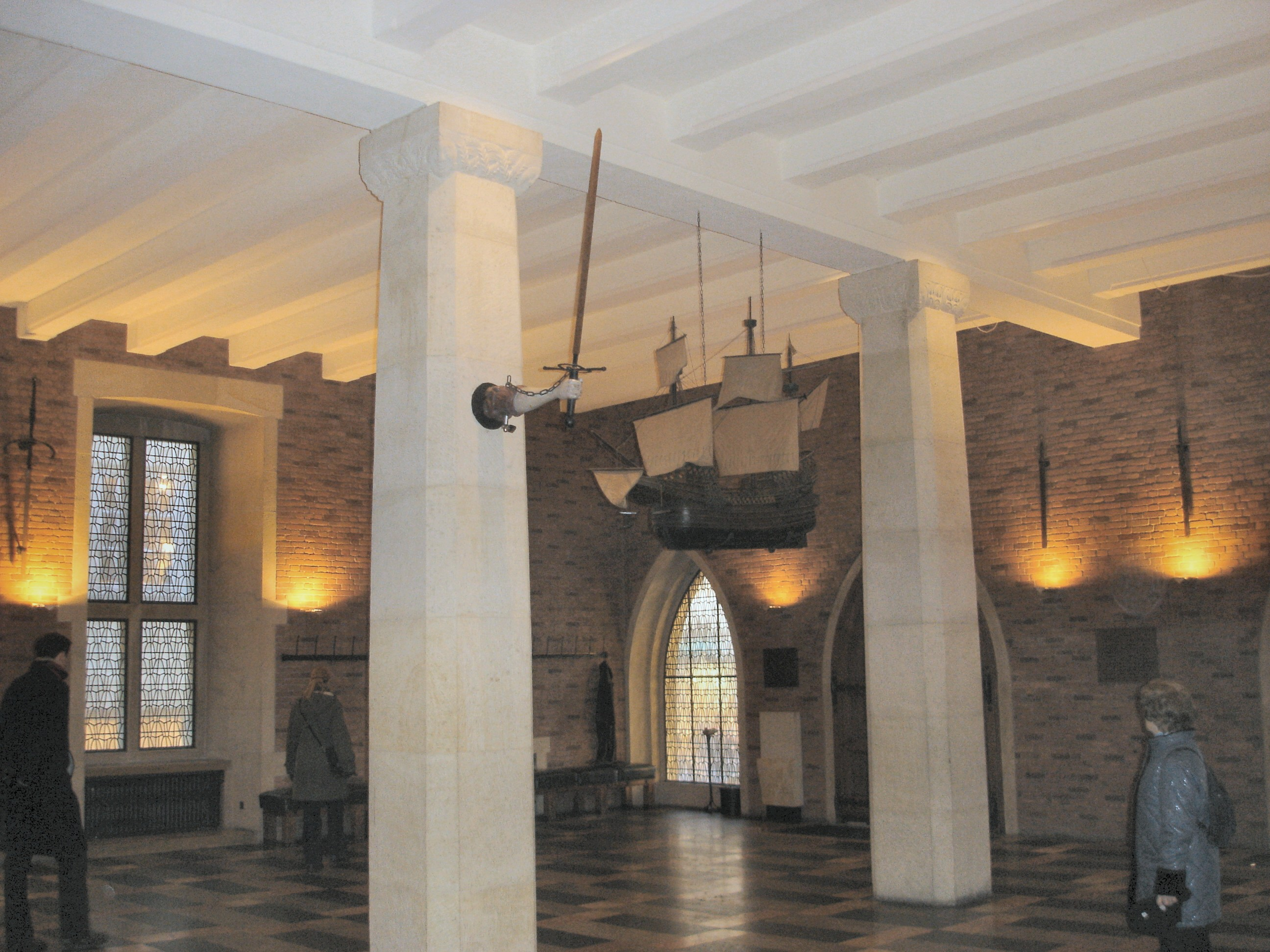 Panoramashot of the "Bürgerhalle" (people's hall) in the historical city hall in Münster, Westphalia, Germany